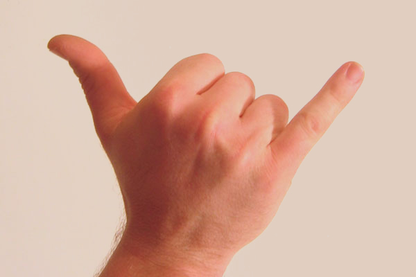 Gesture raised fist with thumb and pinky lifted